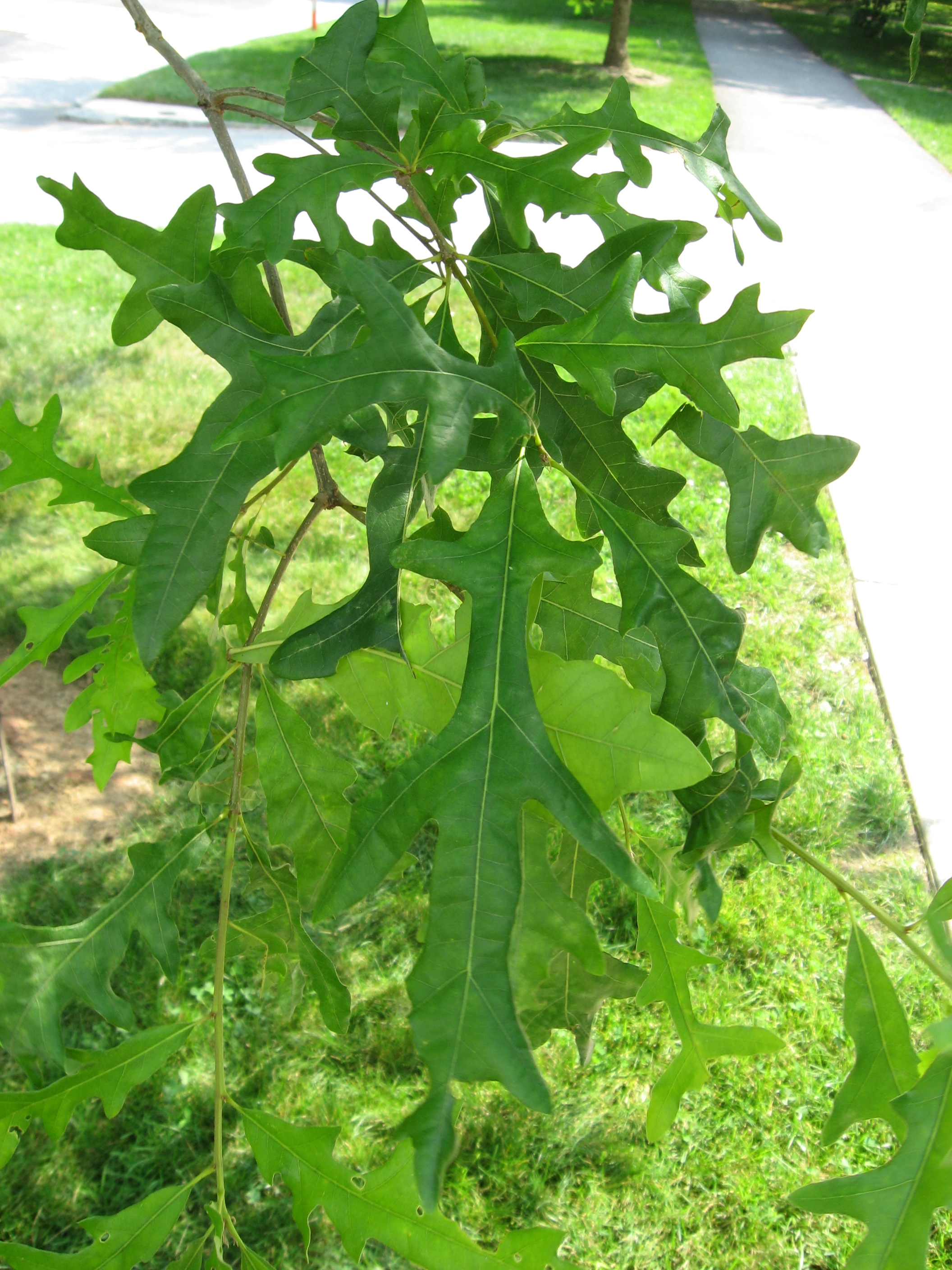 A picture of the leaves of Quercus lyrata.